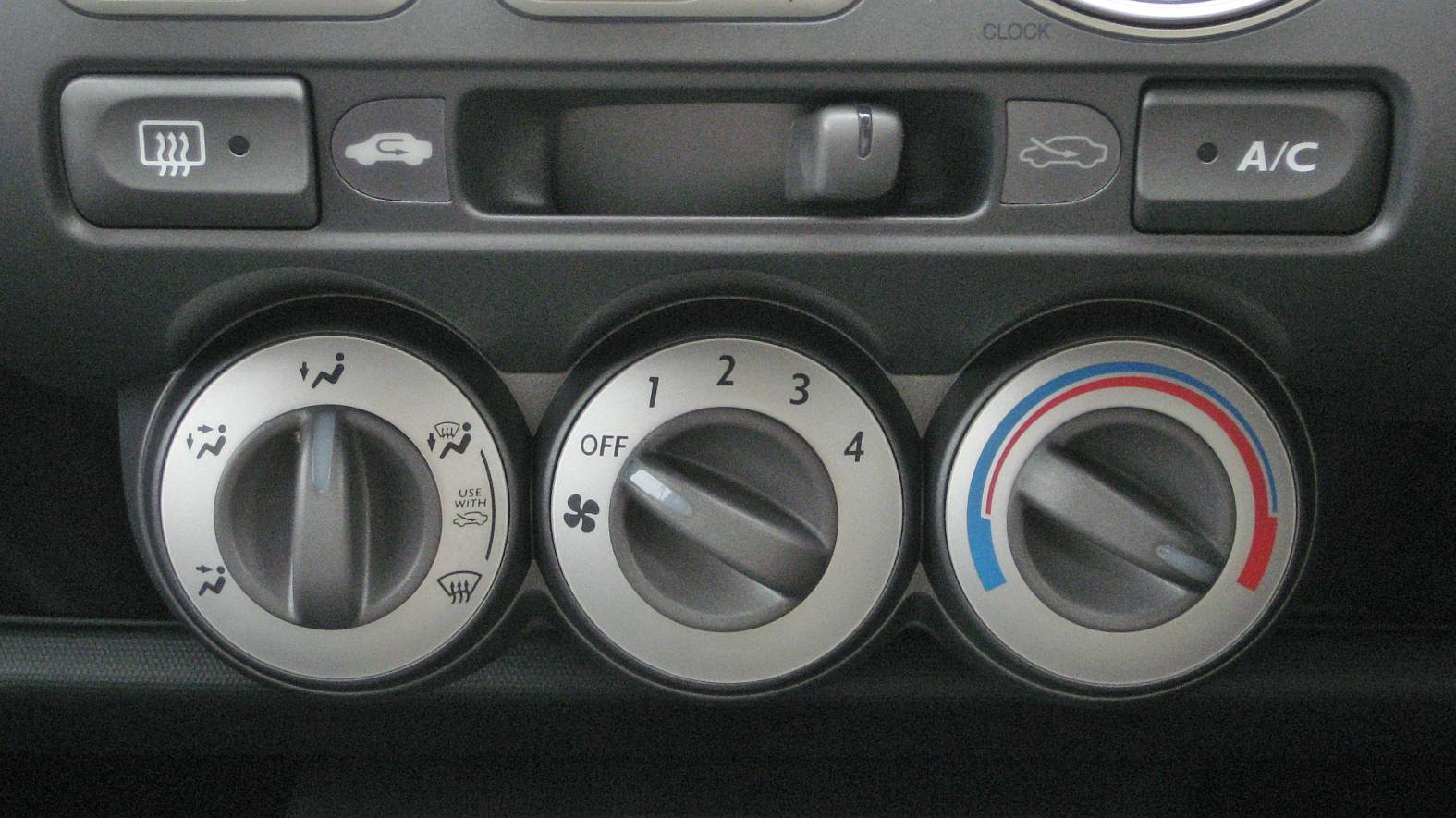 1st gen Honda Fit manual air conditioner console.